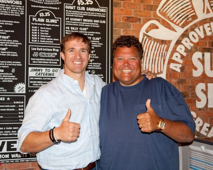 Jimmy John Liautaud greeting Pro Bowl Quarterback Drew Brees, owner of multiple Jimmy John's restaurants in New Orleans.